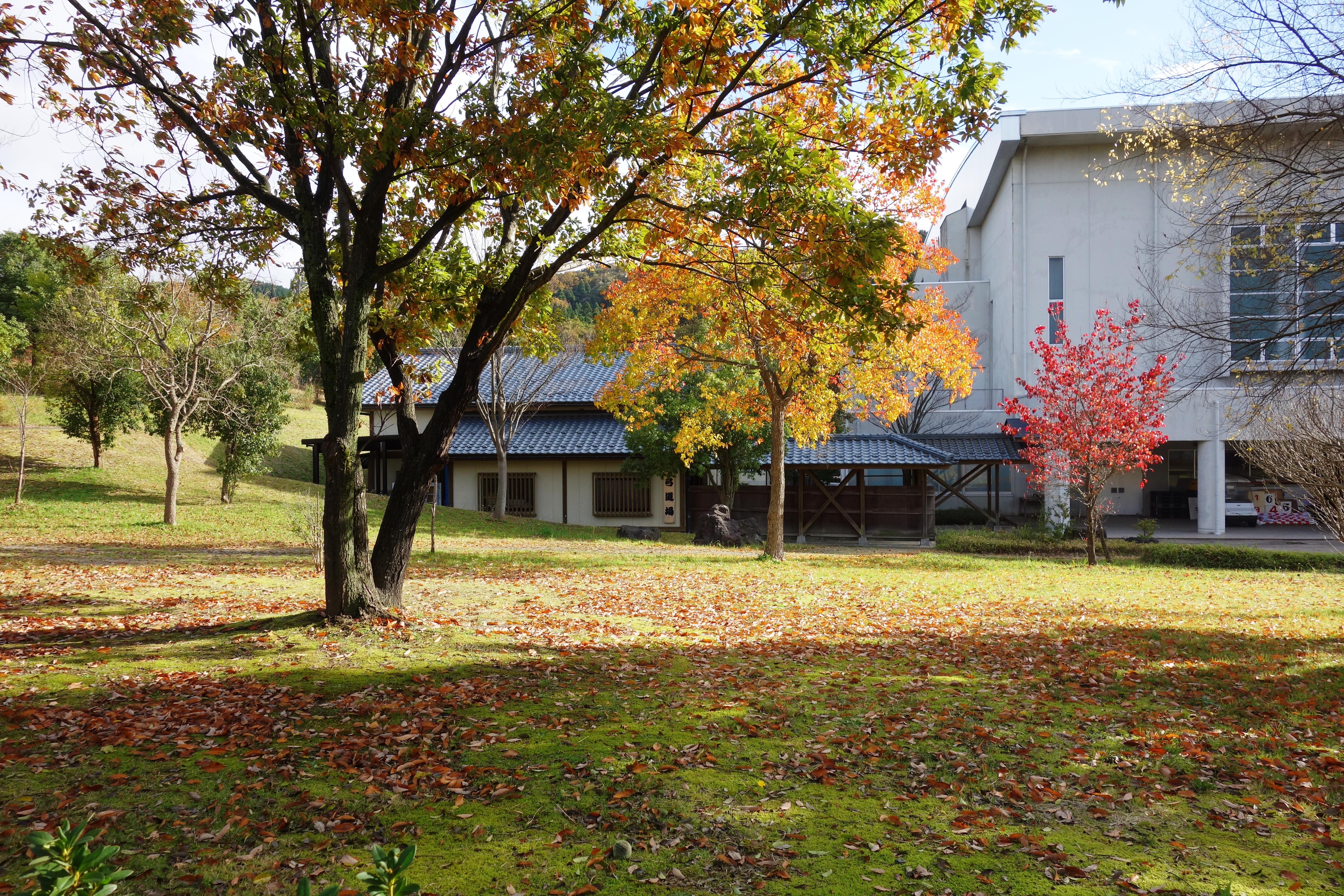 Trim Park Kanazu (Awara City, Fukui Pref., Japan)